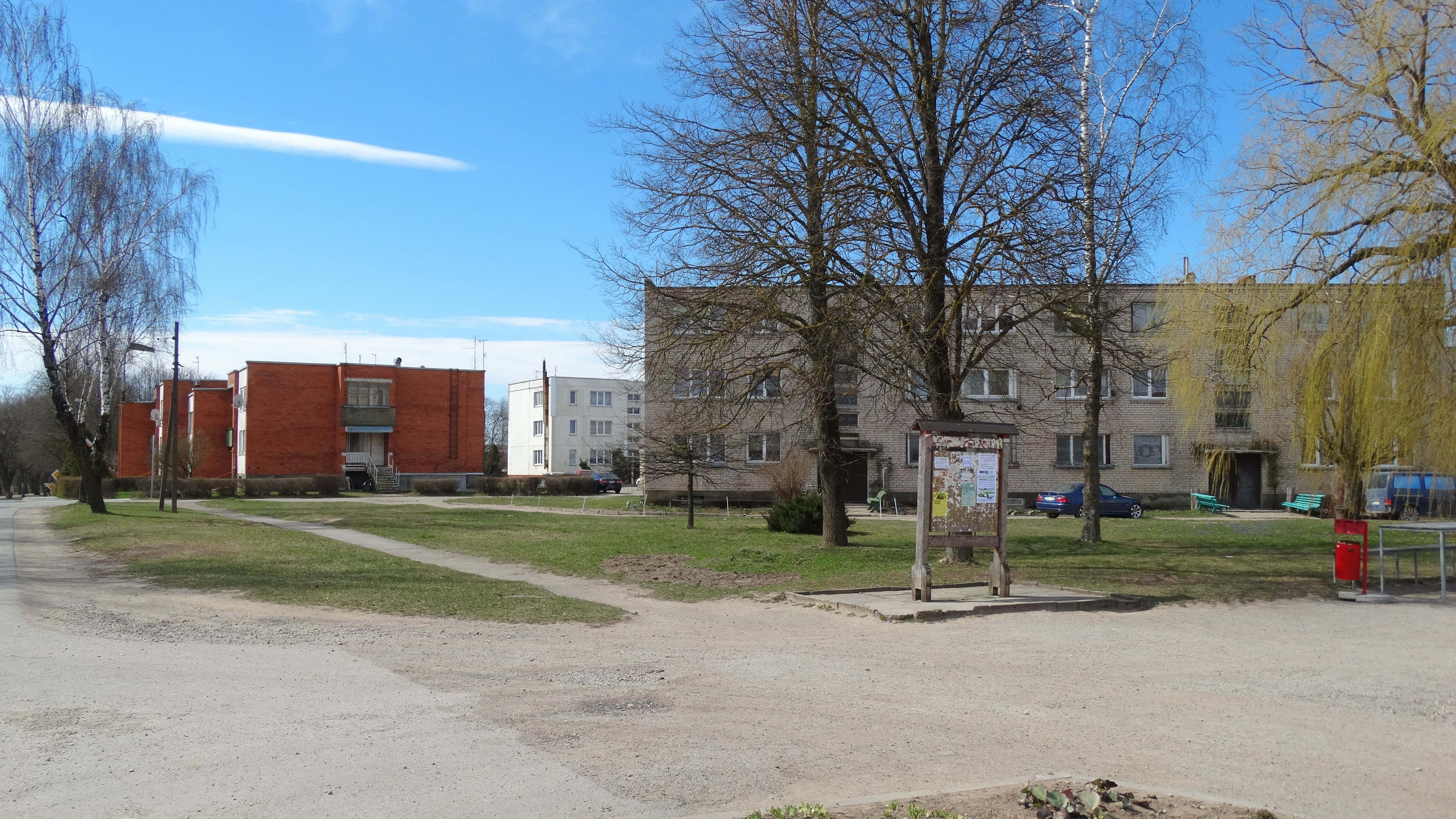 Pakiršinys, Radviliškis district, Lithuania